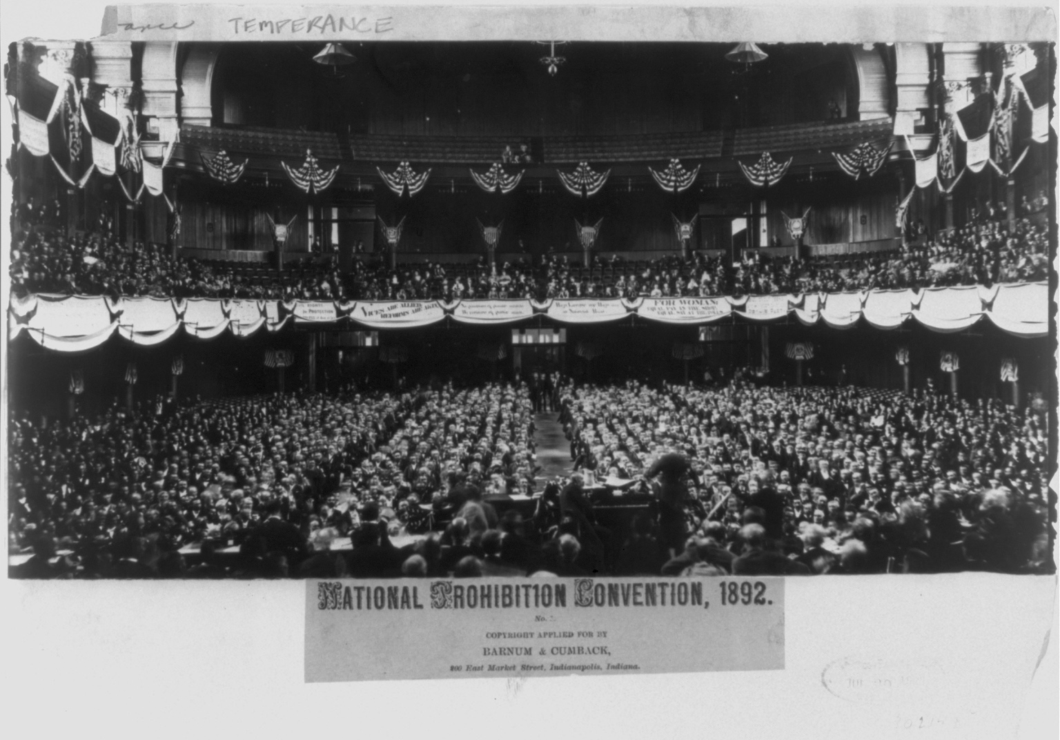 1892 Prohibition Party convention, Cinncinnati. Note: The en:1892 National Prohibition Convention was held in Cincinnati, Ohio. This photo was made by a firm located in Indianapolis, Indiana, which explains why the Library of Congress information below refers to Indianapolis. The en:1888 convention was held in Indianapolis.